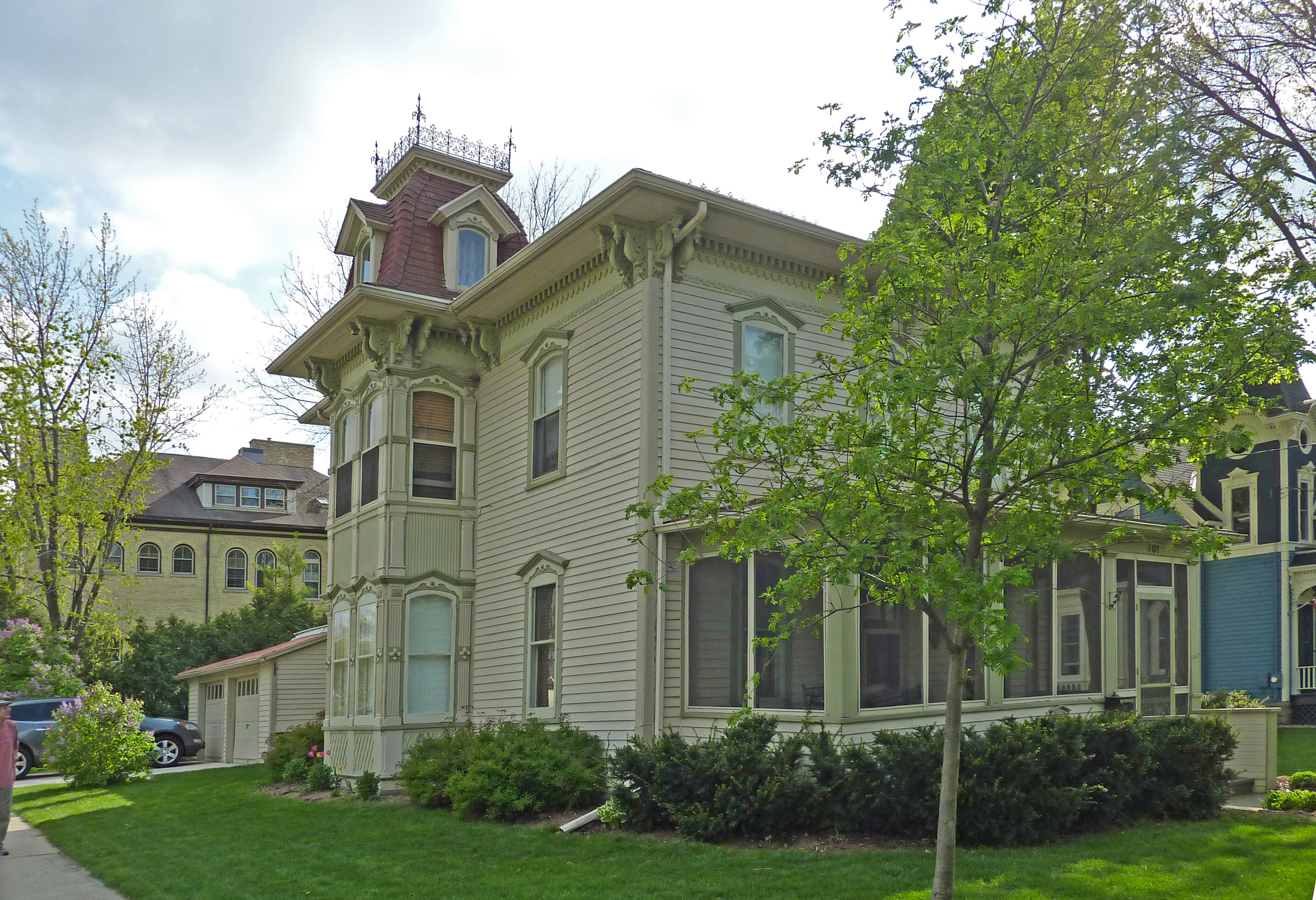 The Sarah and August E. Ovren House at 401 W. South Street in Stoughton, Wisconsin, was built in 1884 and lies within the Southwest Side Historic District, which was added to the National Register of Historic Places in 1997. Visible behind the Ovren House is West School (1886).